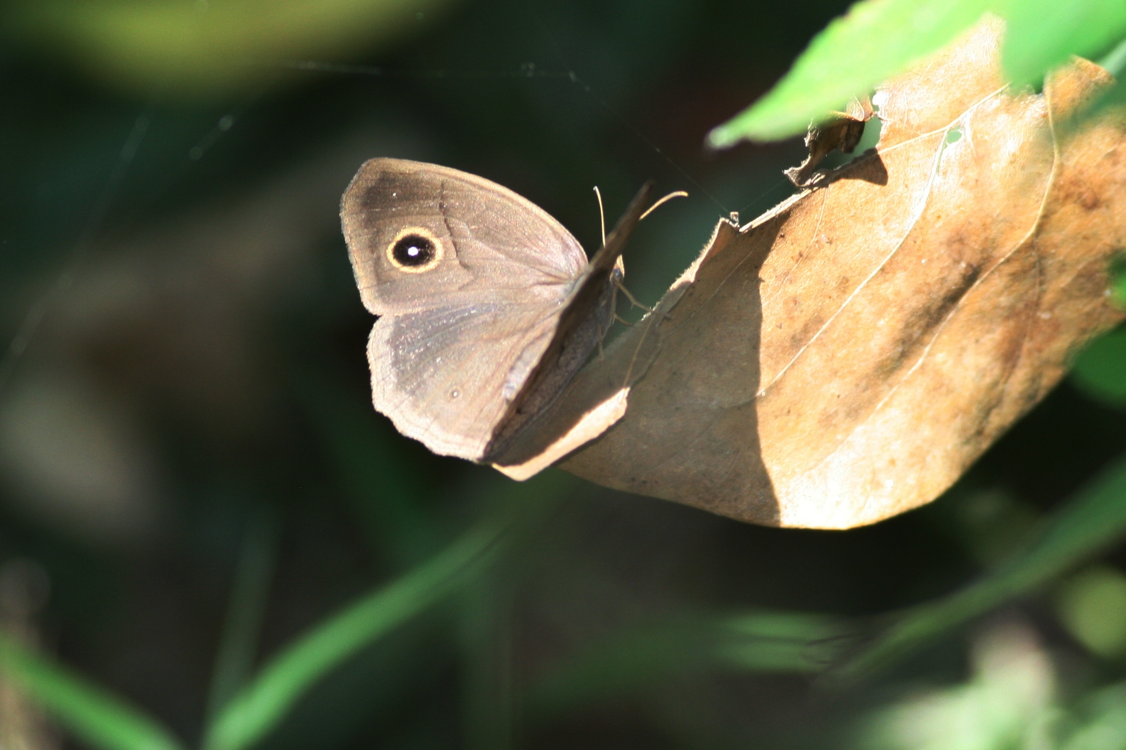 Ringlet Butterfly (Ypthima multistriata) near Shueshe, Sun Moon Lake, Taiwan. Photographed on 4 March 2009.